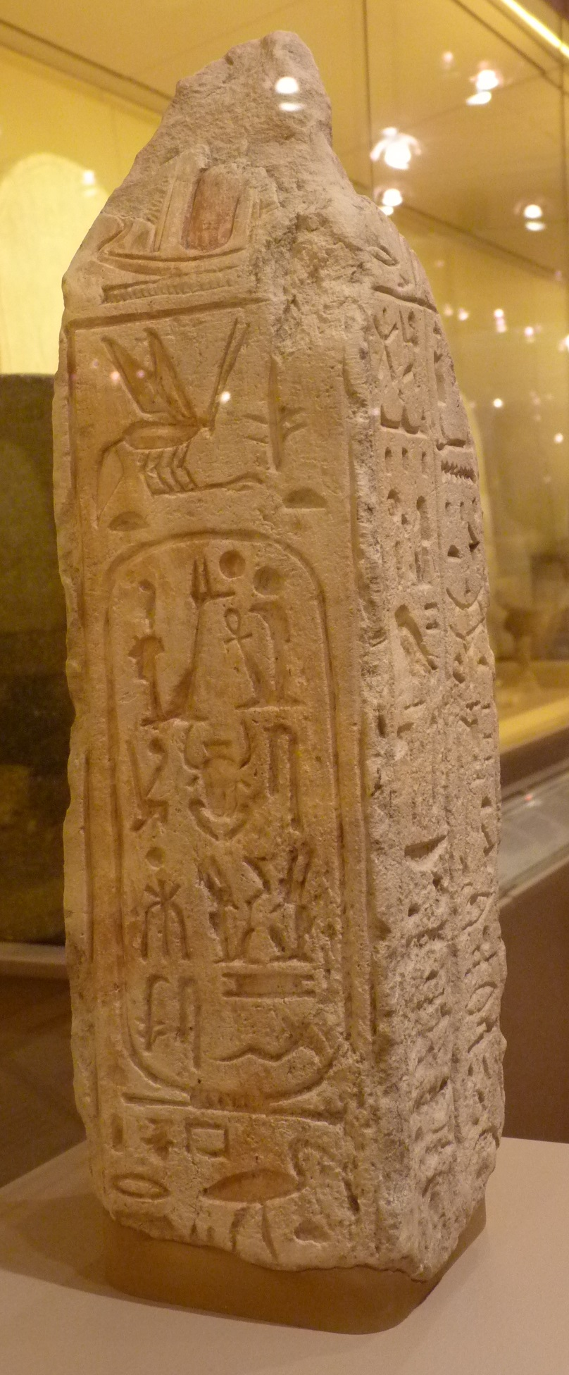 Small limestone obelisk bearing the cartouche of Ramesses V [ref. Flinders Petrie, A History of Egypt, vol III, 1905, p. 171, fig. 70]. Unknown provenience; 20th dynasty, 12th century BCE. Archeological Museum of Bologna (Italy), KS 1884.